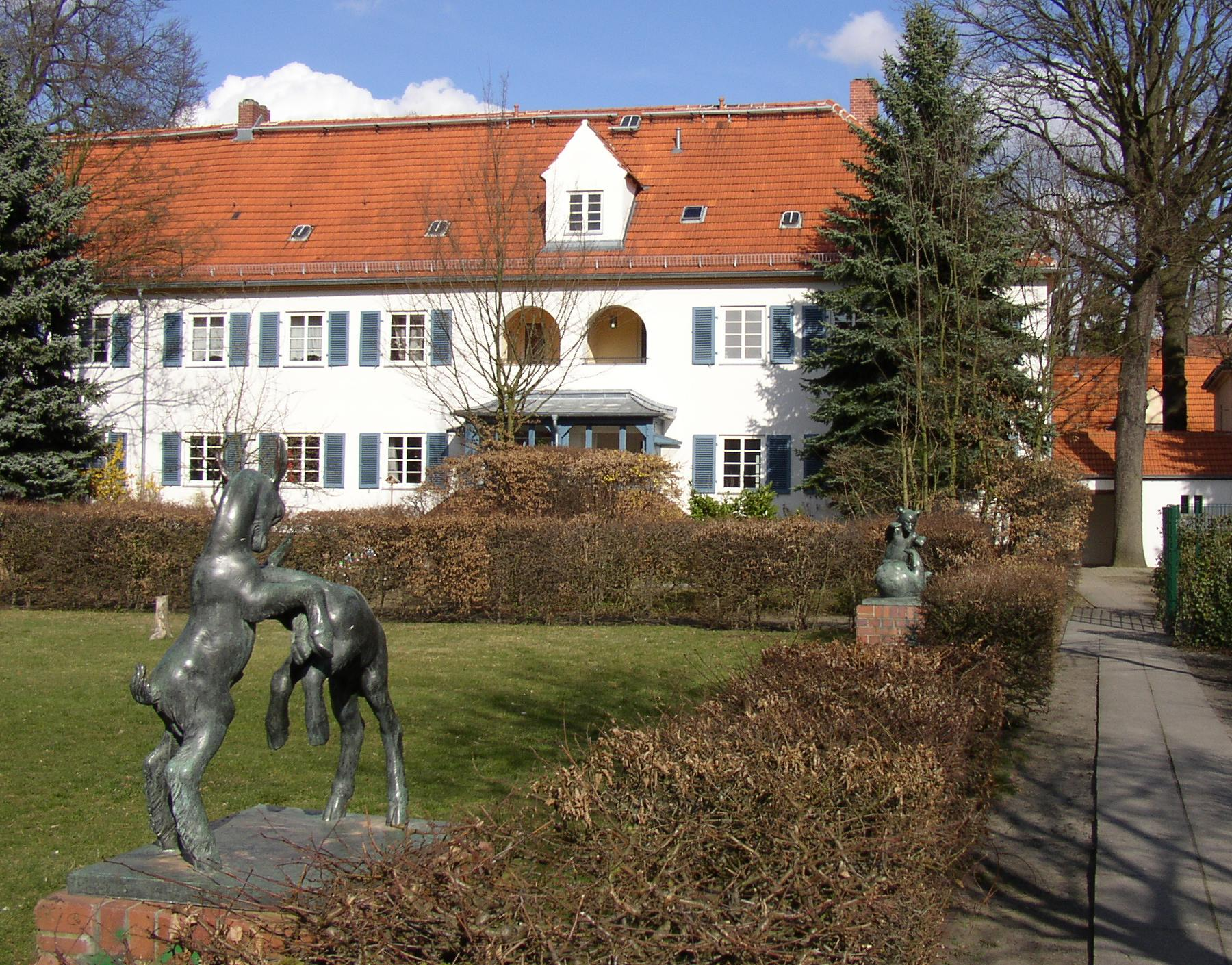 Rapsstraße in „Siedlung Siemensstadt“ in Berlin-Spandau, Germany